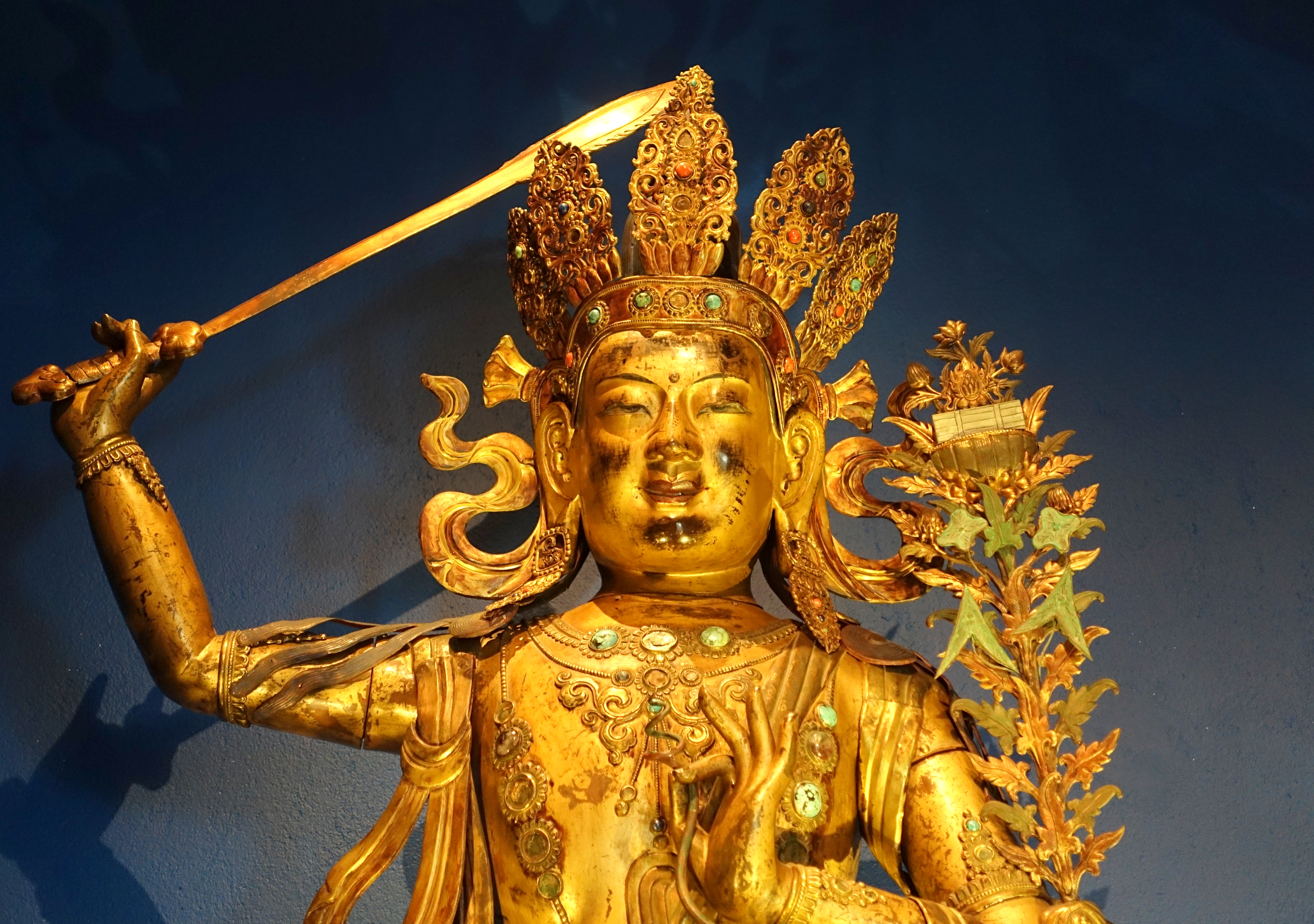 Exhibit in the Östasiatiska museet, Stockholm, Sweden. Bodhisattva from the Museum of Ethnography, Stockholm, collected by Sven Hedin. This artwork is old enough so that it is in the public domain. This is a photo of an artwork at the Museum of Ethnography in Sweden with the identifier: 1935.50.1713